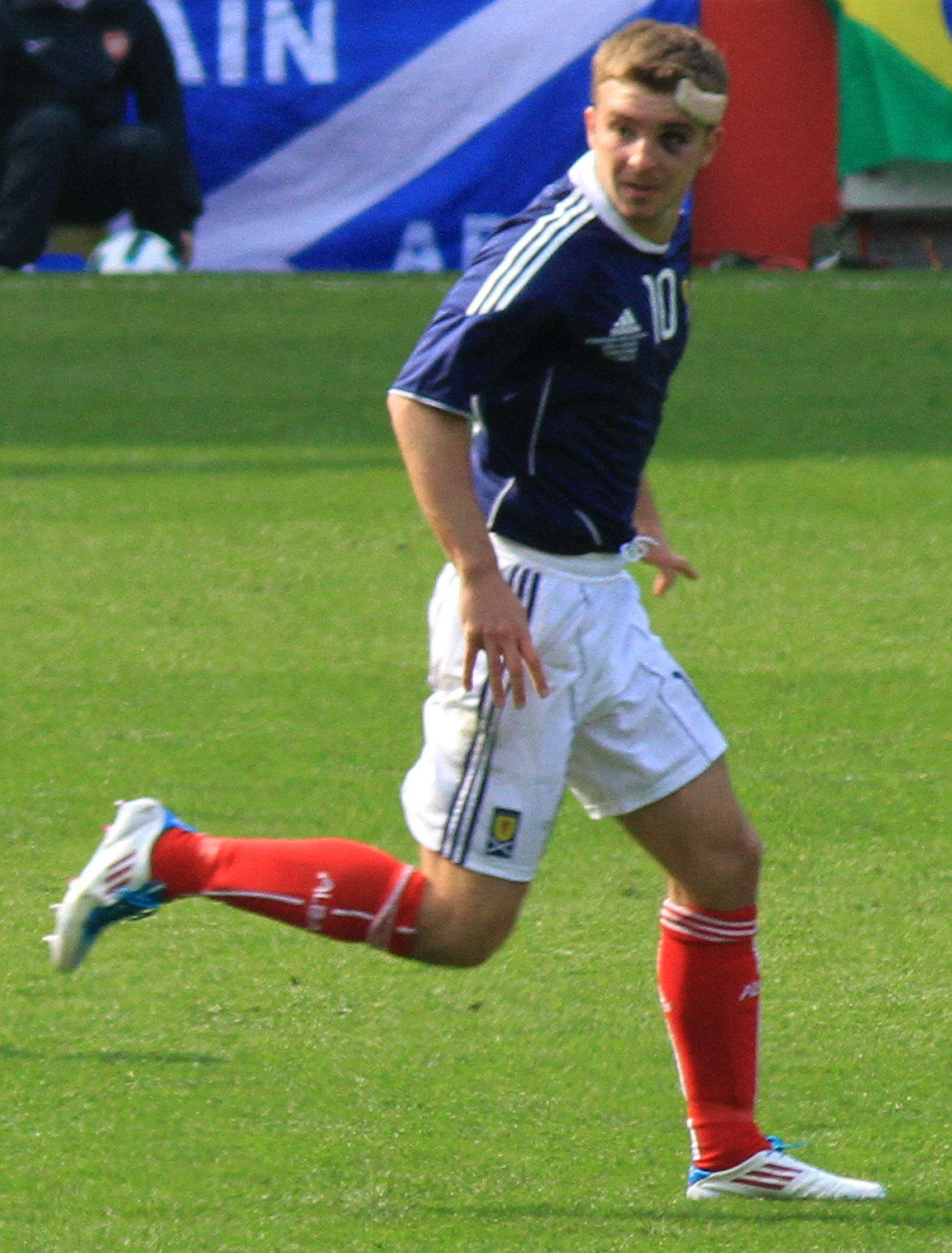 James McArthur breaks down a Brazil attack